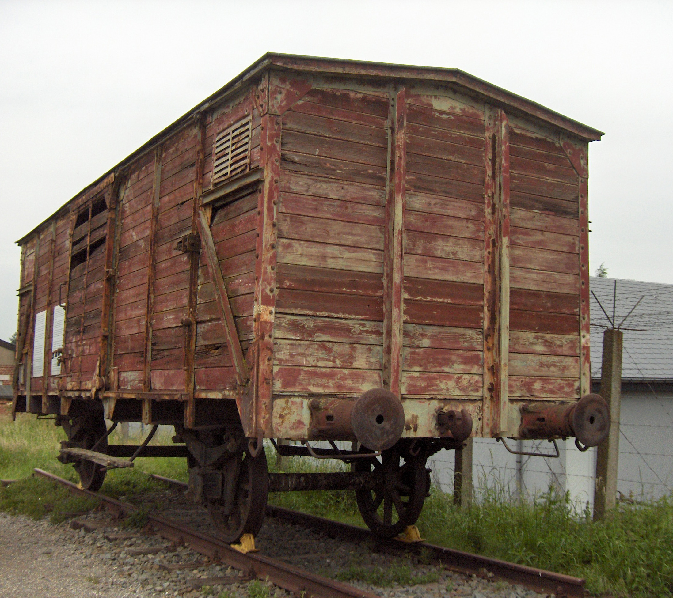 Original boxcar used for transports to the Nazi concentration camps; Fort van Breendonk, Belgium